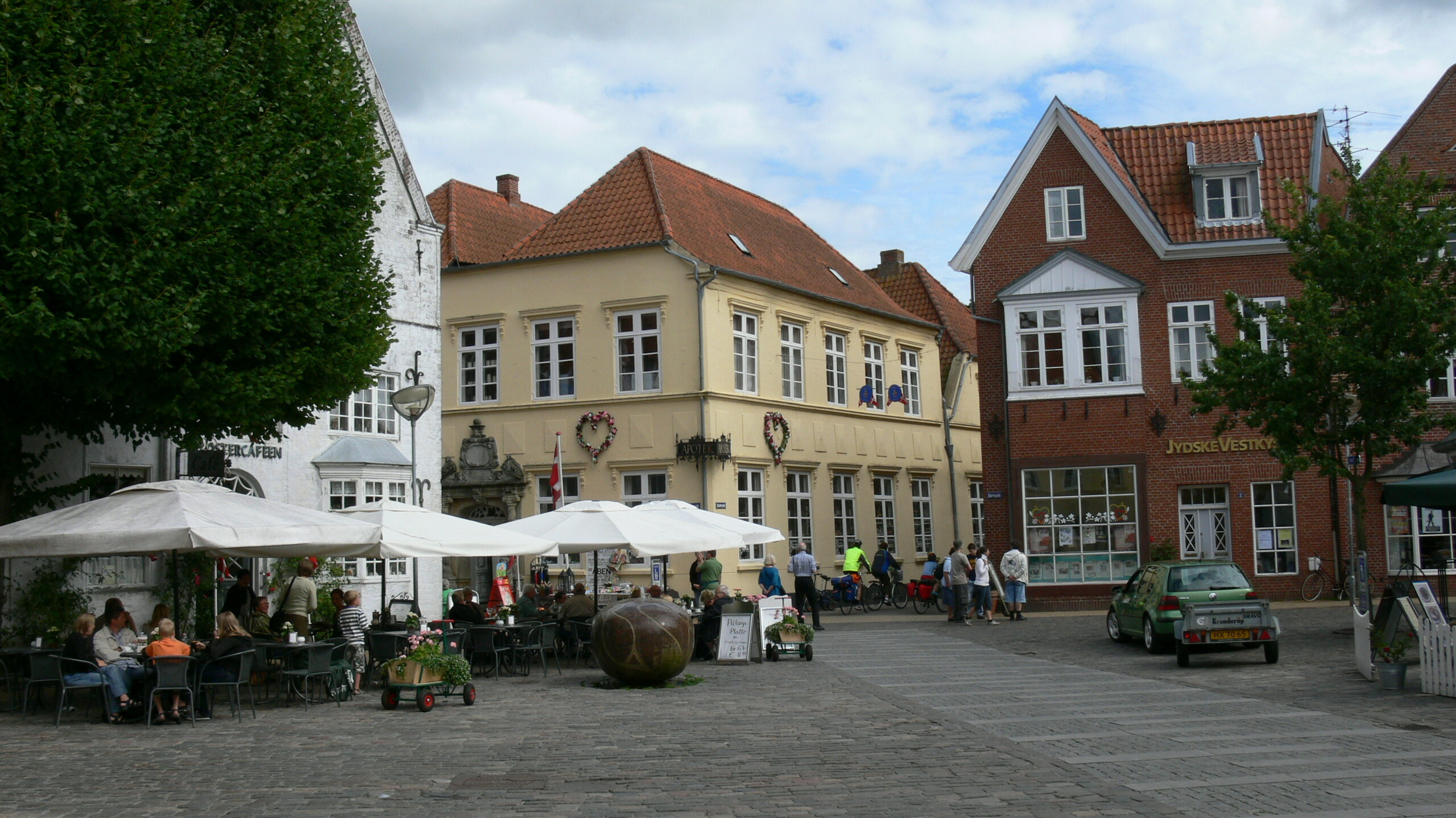 Tønder ( Denmark ). Central square.